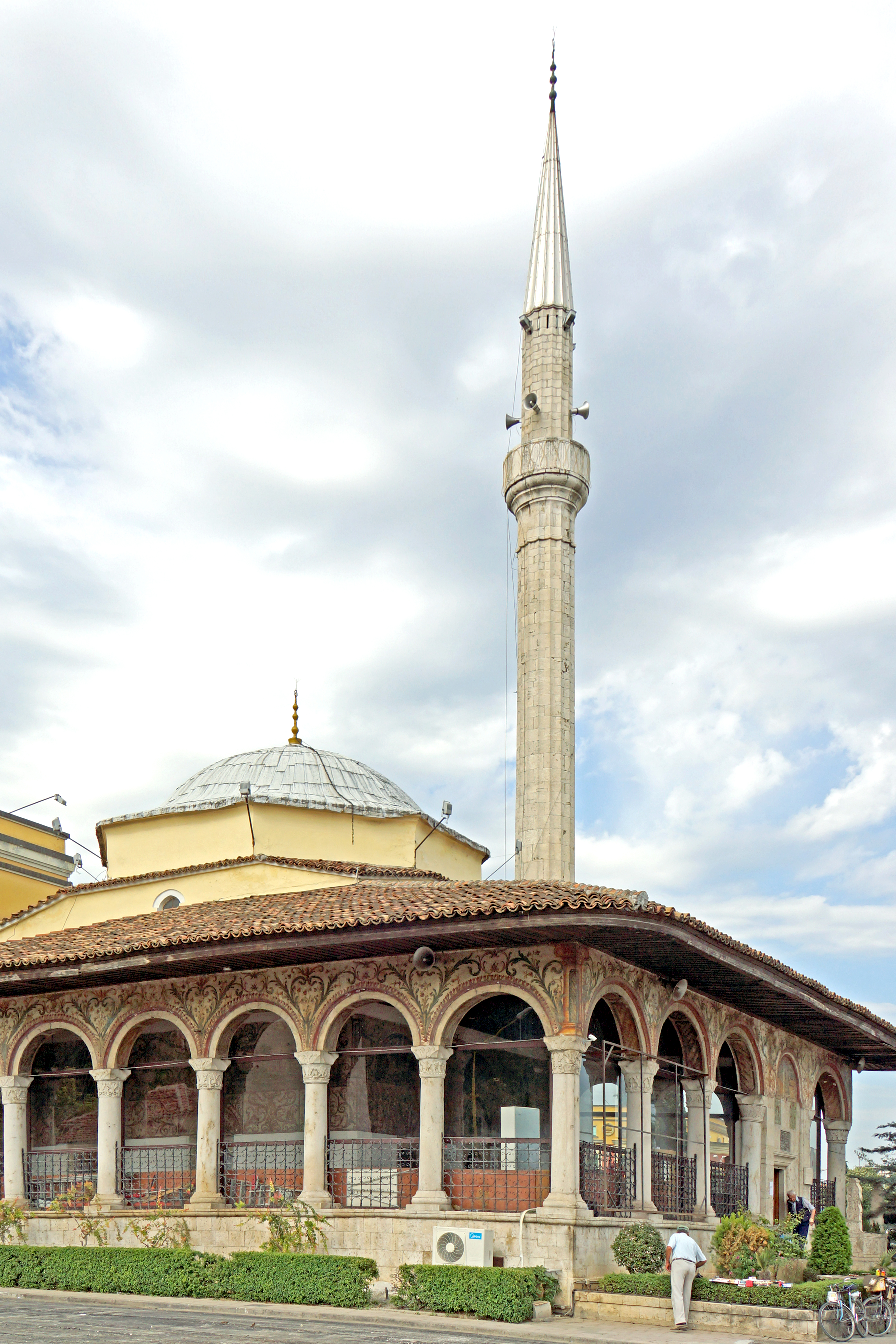 Ethem Bey mosque